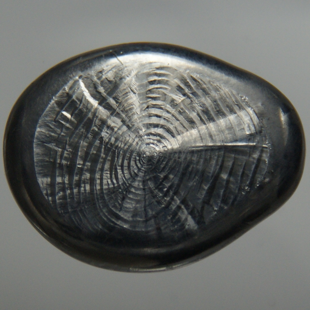 Pure Lead bead.